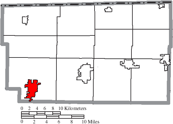 Map of the municipal and township boundaries of Fulton County, Ohio, United States, as of the 2000 census, with the location of the village of Archbold highlighted. Township borders are shown only in unincorporated areas in order to differentiate incorporated and unincorporated areas more clearly.